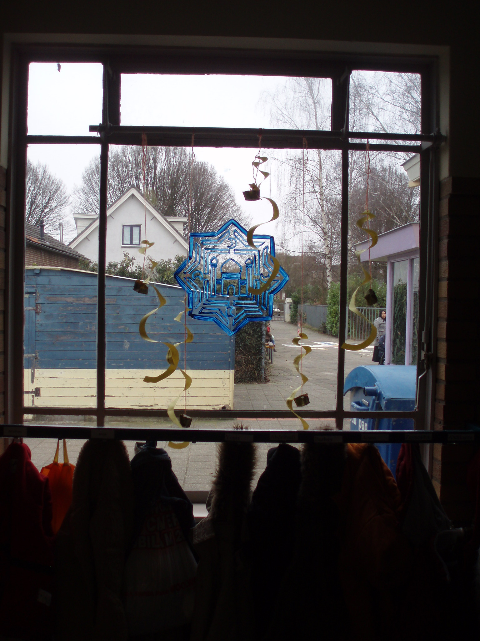 Window of the islamic primary school Hidaya in Nijmegen (The Netherlands)